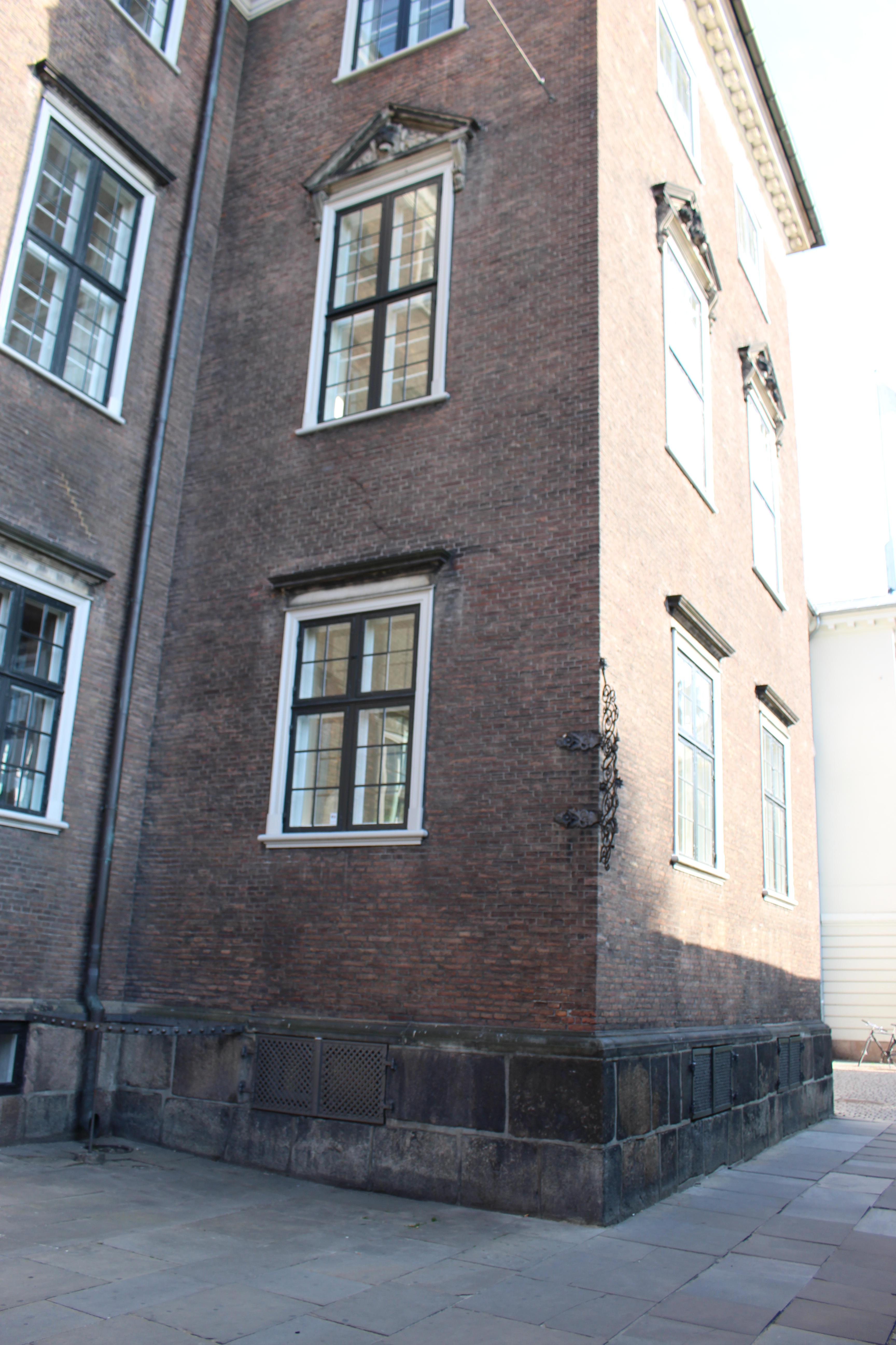 Detail from the Charlottenborg building in central Copenhagen.